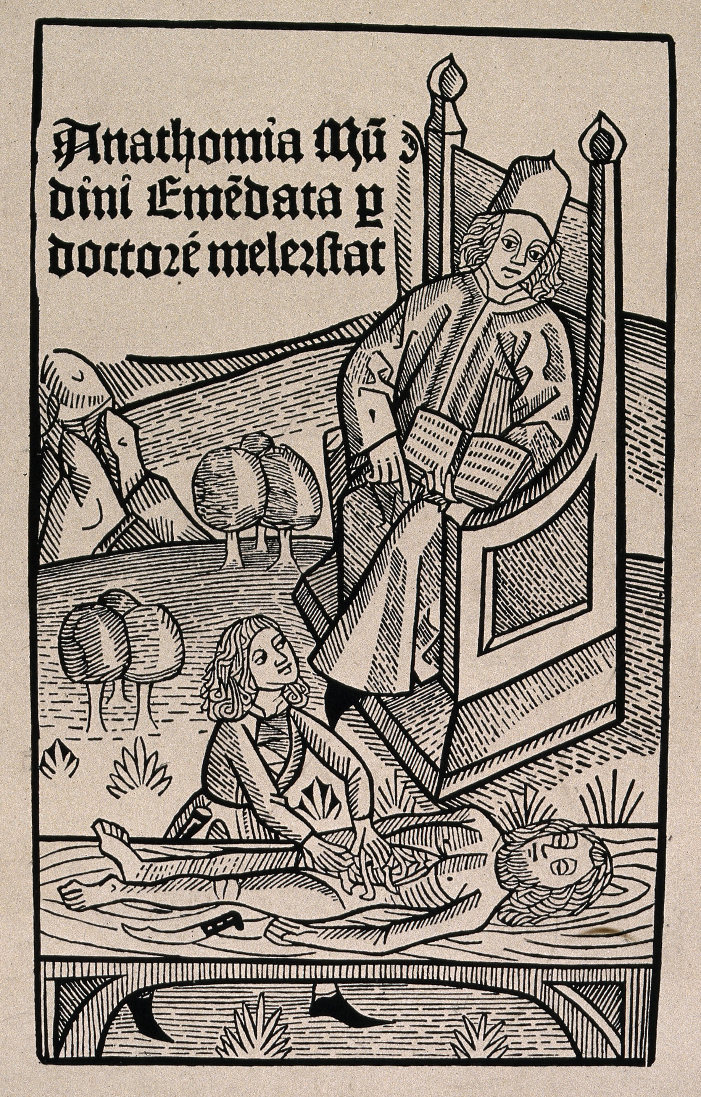 A man seated in a chair in a landscape, holding an open book, directing a dissection which is taking place in the foreground. Line block after a woodcut, c. 1493. Iconographic Collections Keywords: ic; Mondino dei Luzzi